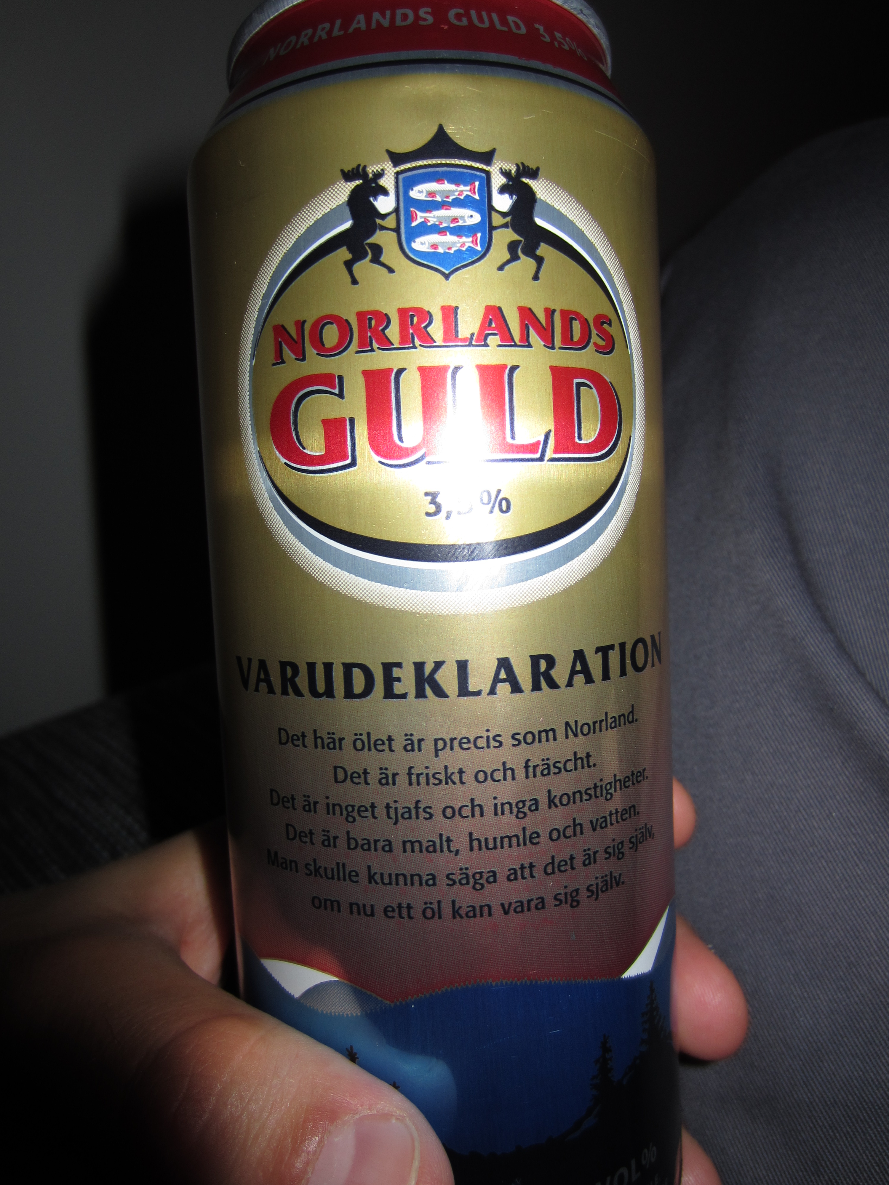 A can of Swedish beer "Norrlands Guld", 3,5%